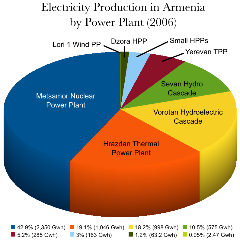 Electricity production in Armenia for the year 2006, broken down by power plants. Source: Public Services Regulatory Commission of The Republic of Armenia. (Image created using Calc, The GIMP, and Inkscape.)